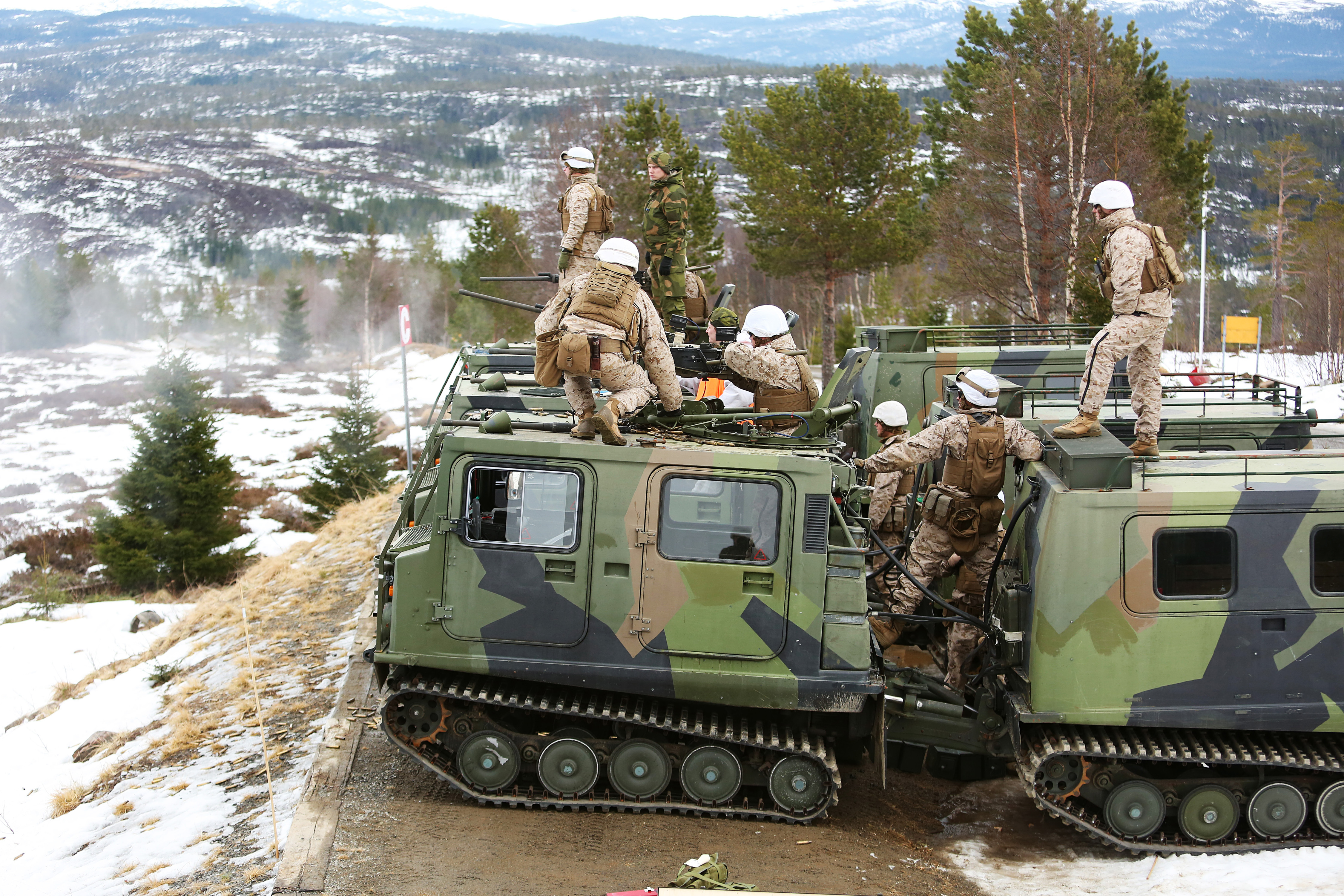 The Warlords of 2nd Battalion, 2nd Marine Regiment, 2nd Marine Division fire .50 caliber machine guns on a range in Norway from mounted BV positions. This live-fire range is part of the integration training prior to the March 10th start of Exercise Cold Response 2014 which is a Norwegian-led multinational exercise above the Arctic Circle designed prepare for crisis response operations. During the exercise forces from 17 countries will unify to strengthen the strong military bond between participating nations.